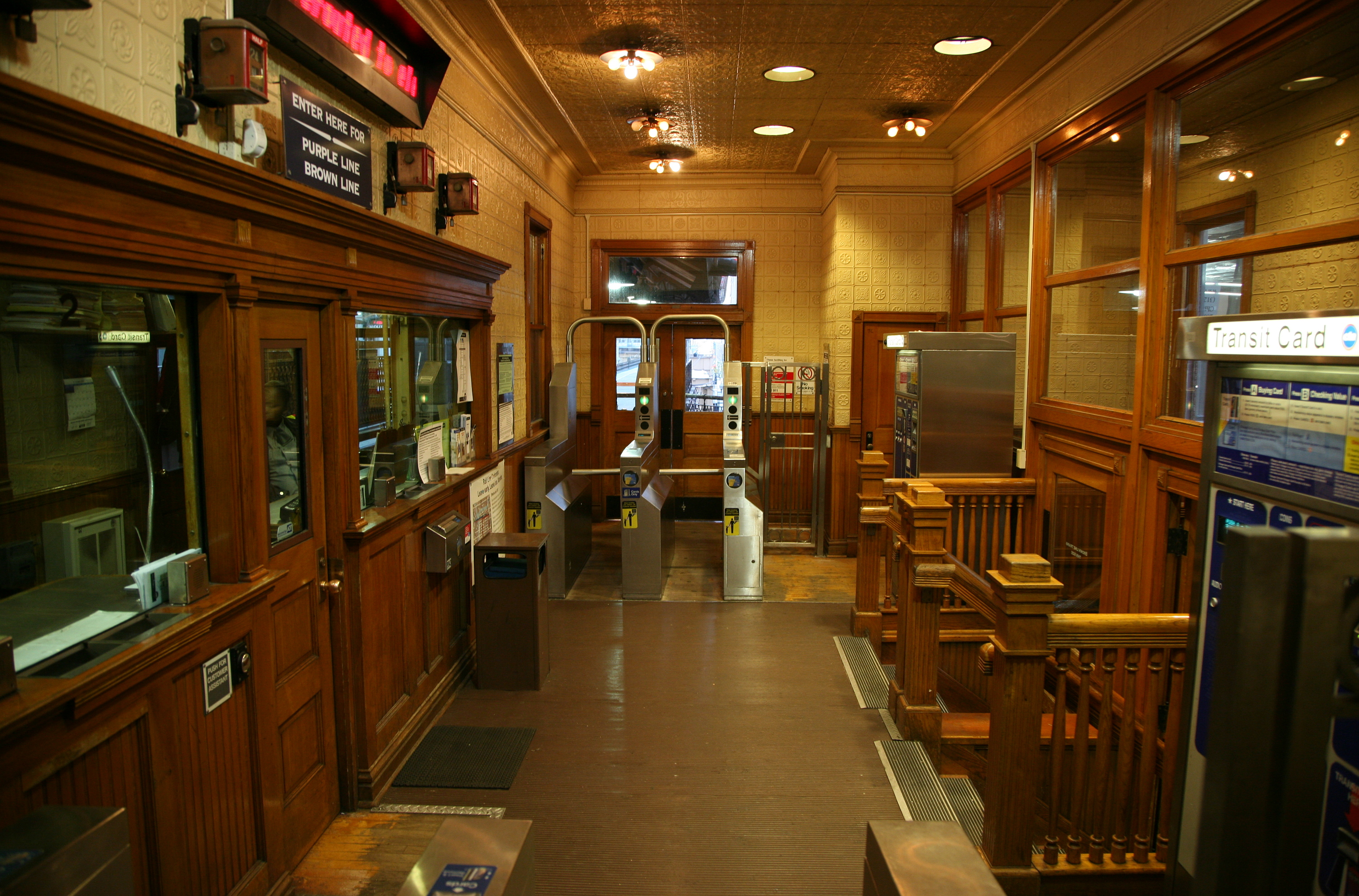 Quincy station entrance area with turnstiles, Chicago.